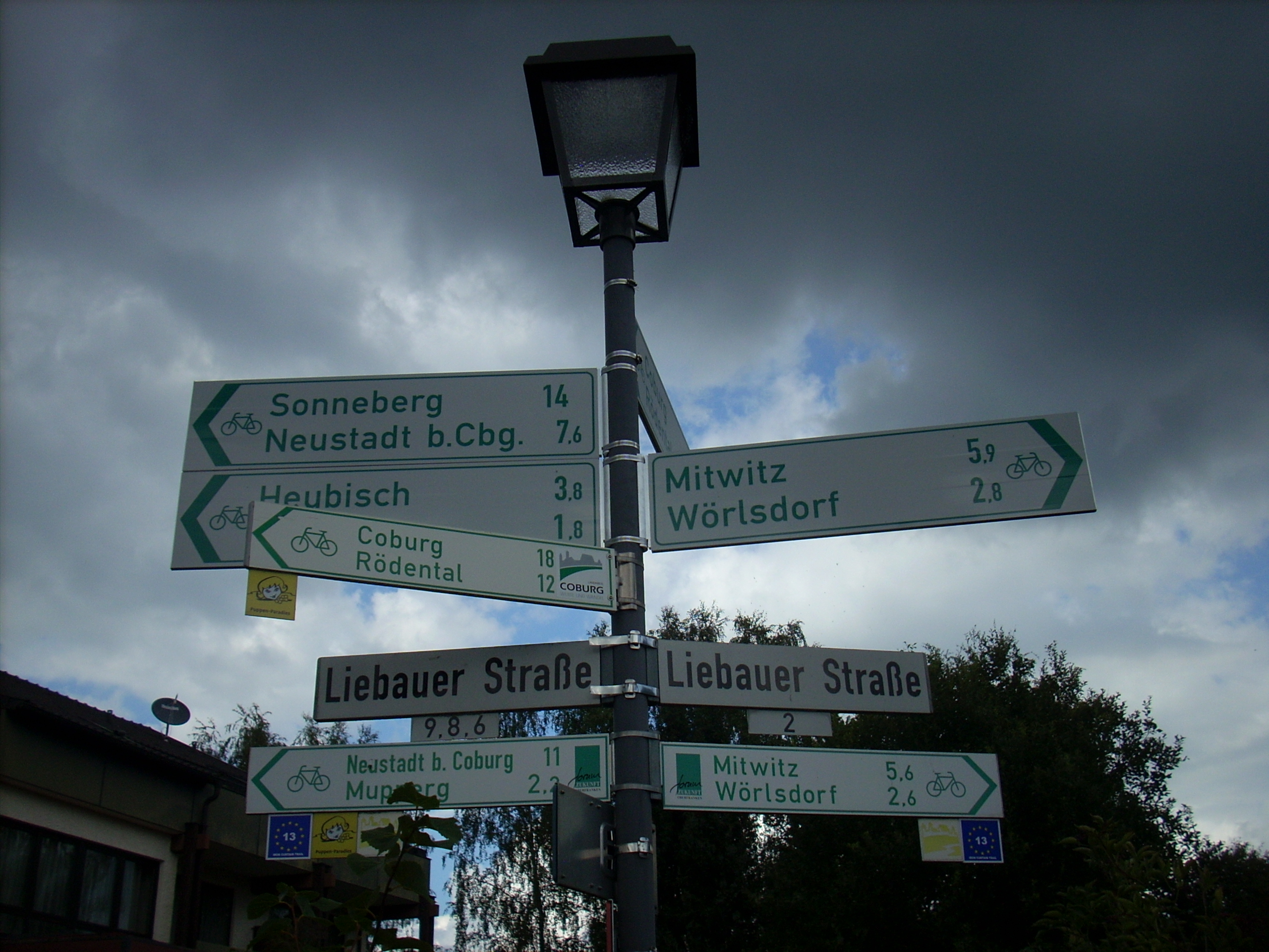 The picture shows a streetlight with cycle-signposts including the ICT-signet. It was taken 2011, near the bavarian town of Coburg during a cycletour on the ICT from Hof to Travemünde.